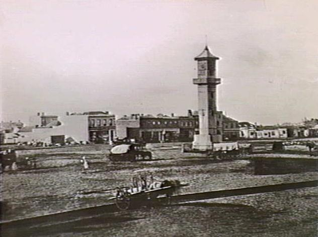 Austin Clock, old Town Clock now demolished (in 1923) taken in 1916, old Market Square and Little Malop Street.